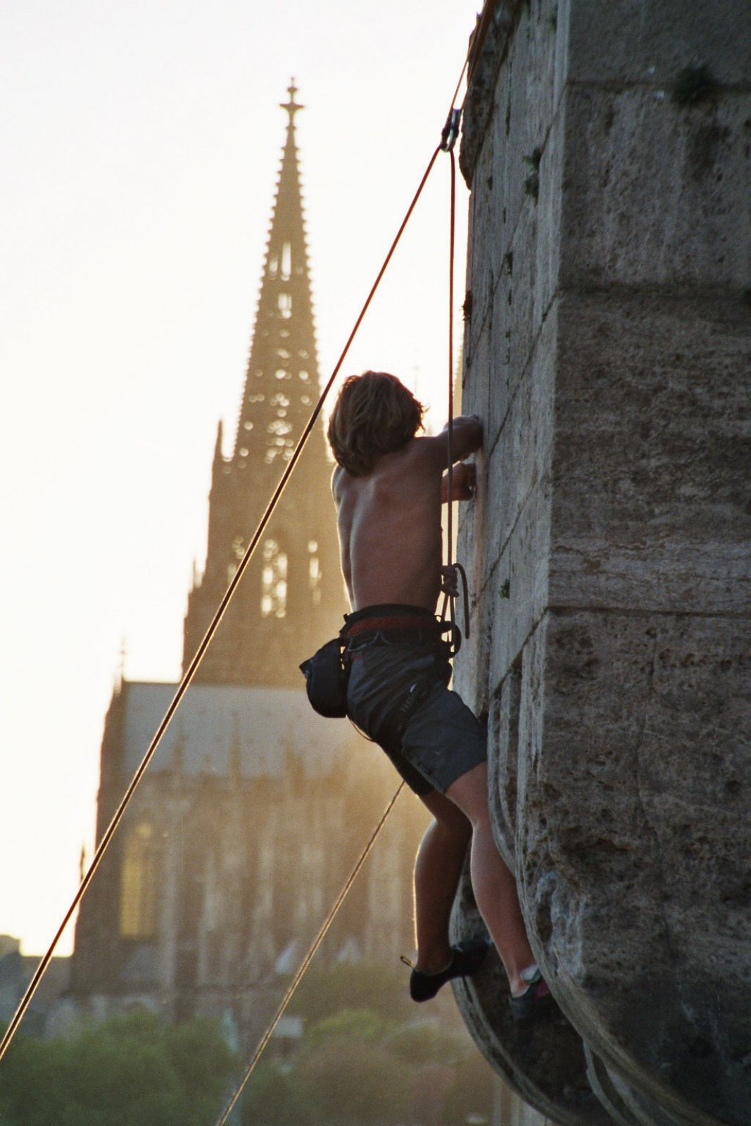 Climbing on a pier of the Hohenzollern-Bridge in Cologne